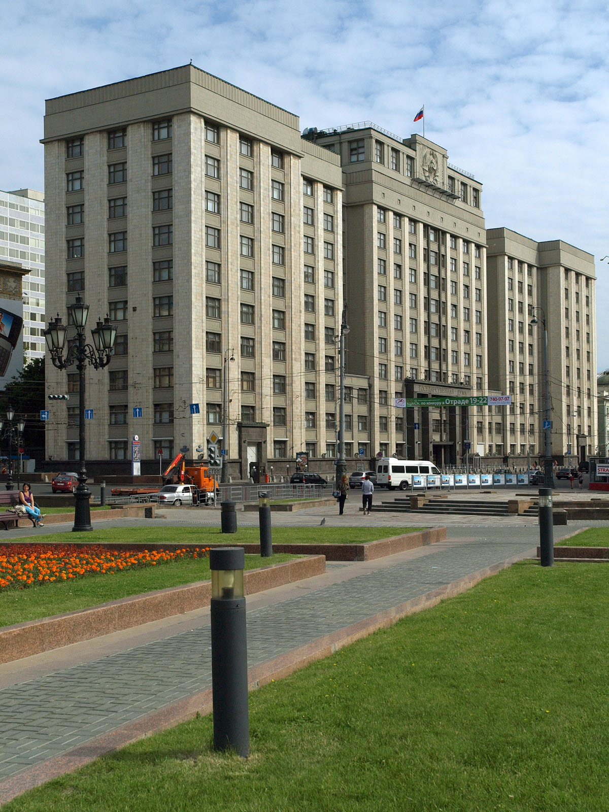 STO (Gosplan, Duma) building in Moscow, Russia, 1932-1935